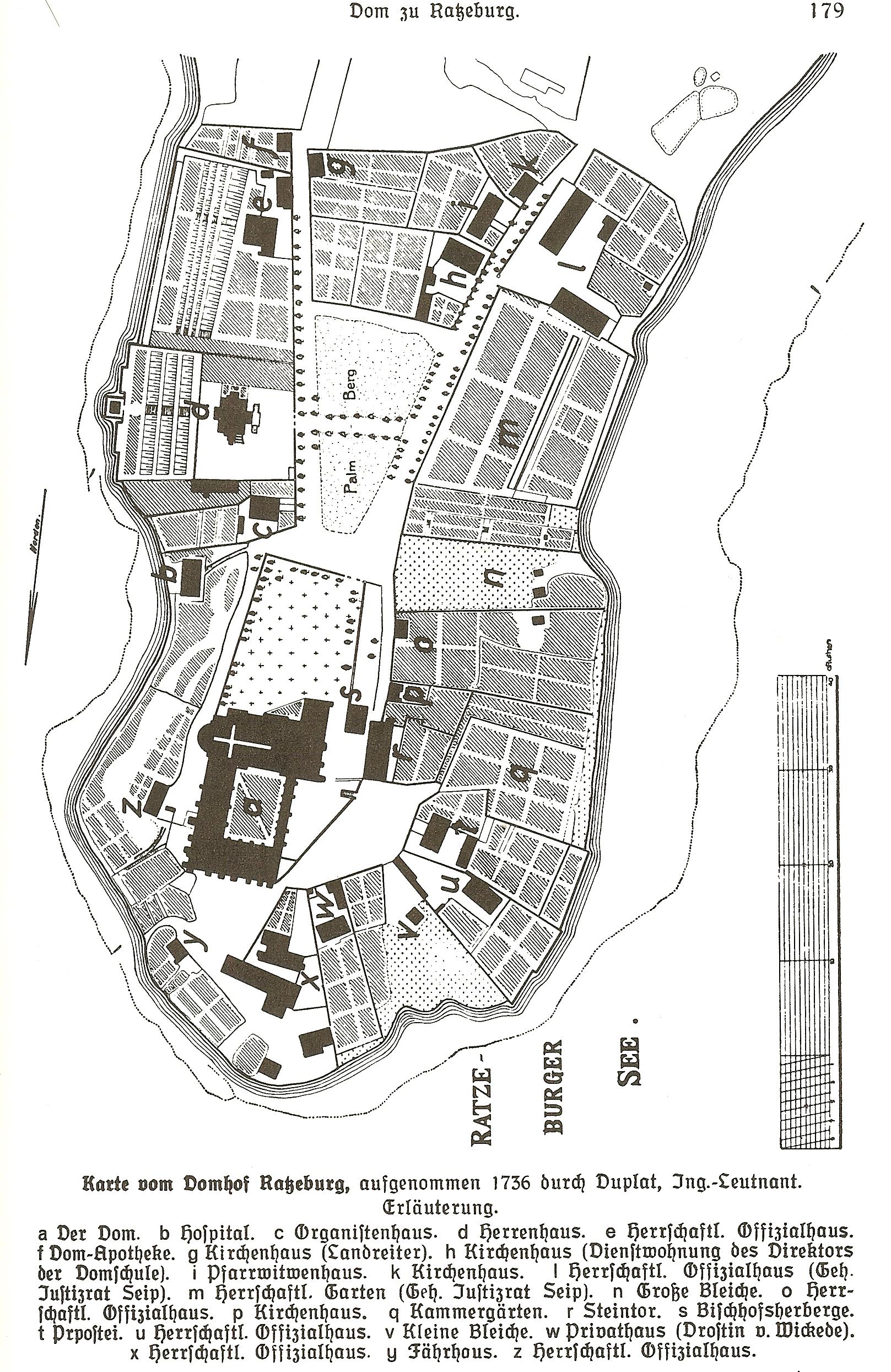 Annotated Map of Domhof Ratzeburg from 1739